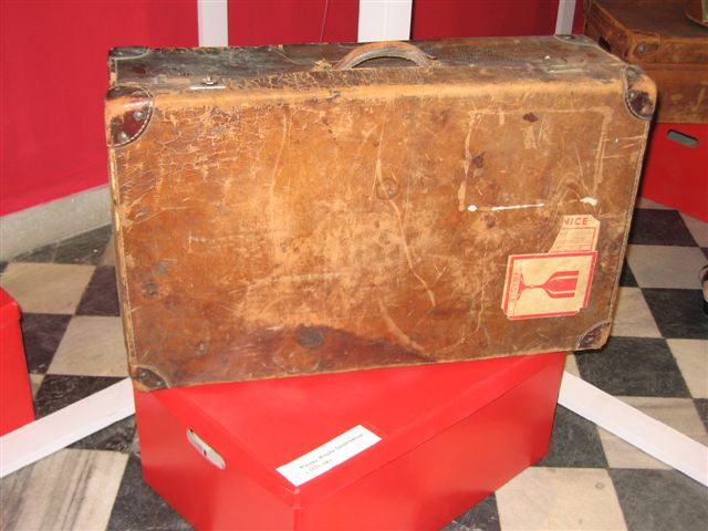 Witold Gombrowicz's valise